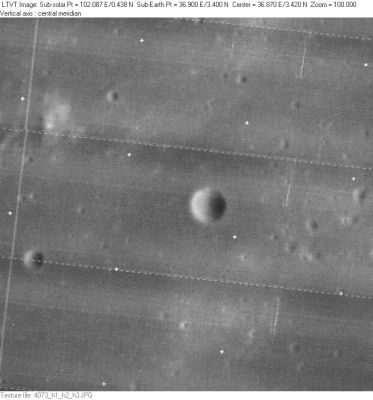 LO-IV-073H The craterlet Menzel, which was previously known as Maskelyne FC.